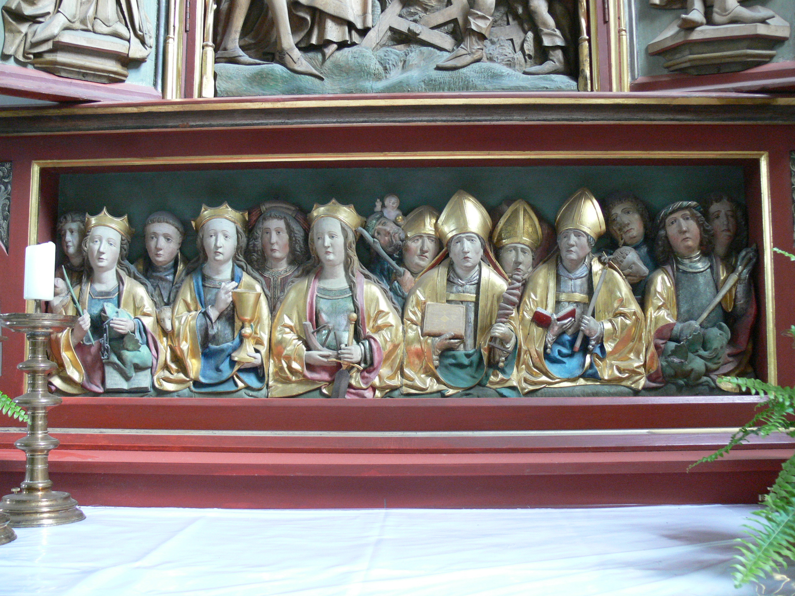 Wolframs-Eschenbach. Church of our Lady: Altar of the Holy cross - Predella showing the 14 Holy Helpers ( 1510 )